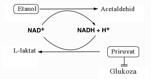 Ethanol-induced L-lactic acidosis. The metabolism of ethanol increases the NADH/NAD+ ratio, which favors the conversion of pyruvate to lactate rather than to glucose